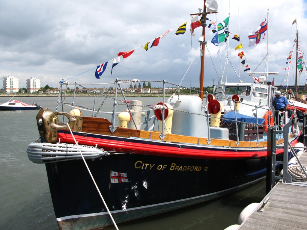 A former Watson Class lifeboat on display at an Royal National Lifeboat Institution open day in Poole. City of Bradford III (offical number 911) was built in 1954 and stationed at Humber Lifeboat Station until 1977 then at Lytham St annes from 1978 until 1985..